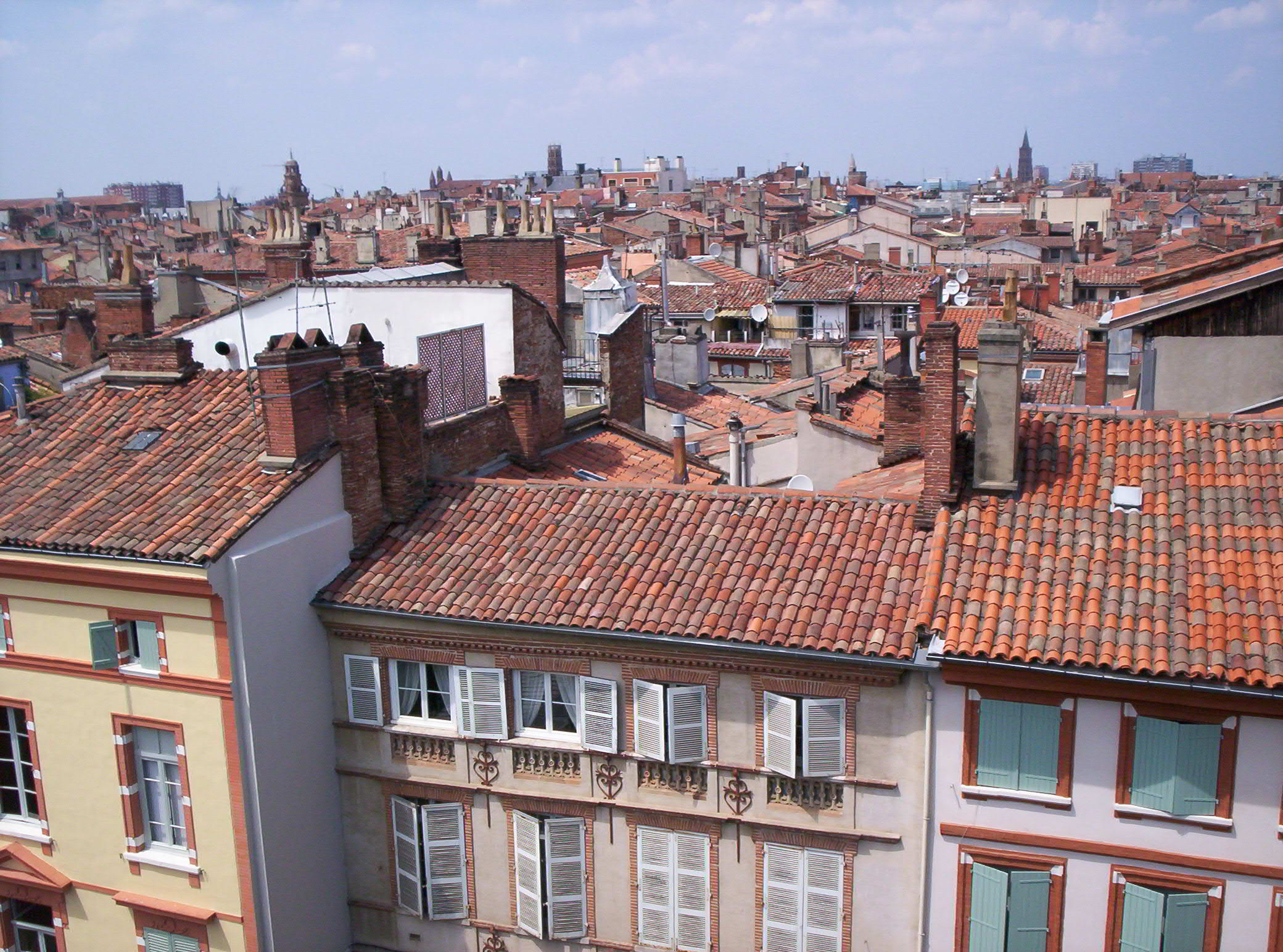 Toulouse roofs (France)